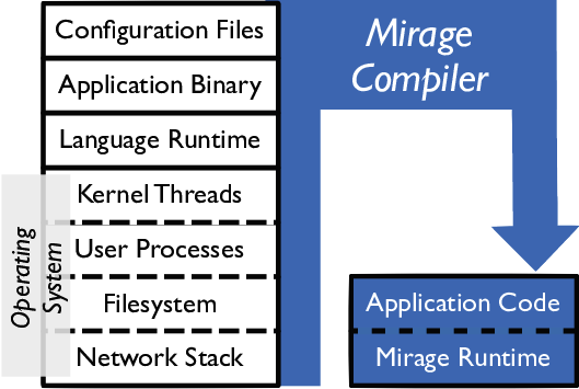 Example of a Unikernel architecture (as compared to a traditional OS stack).